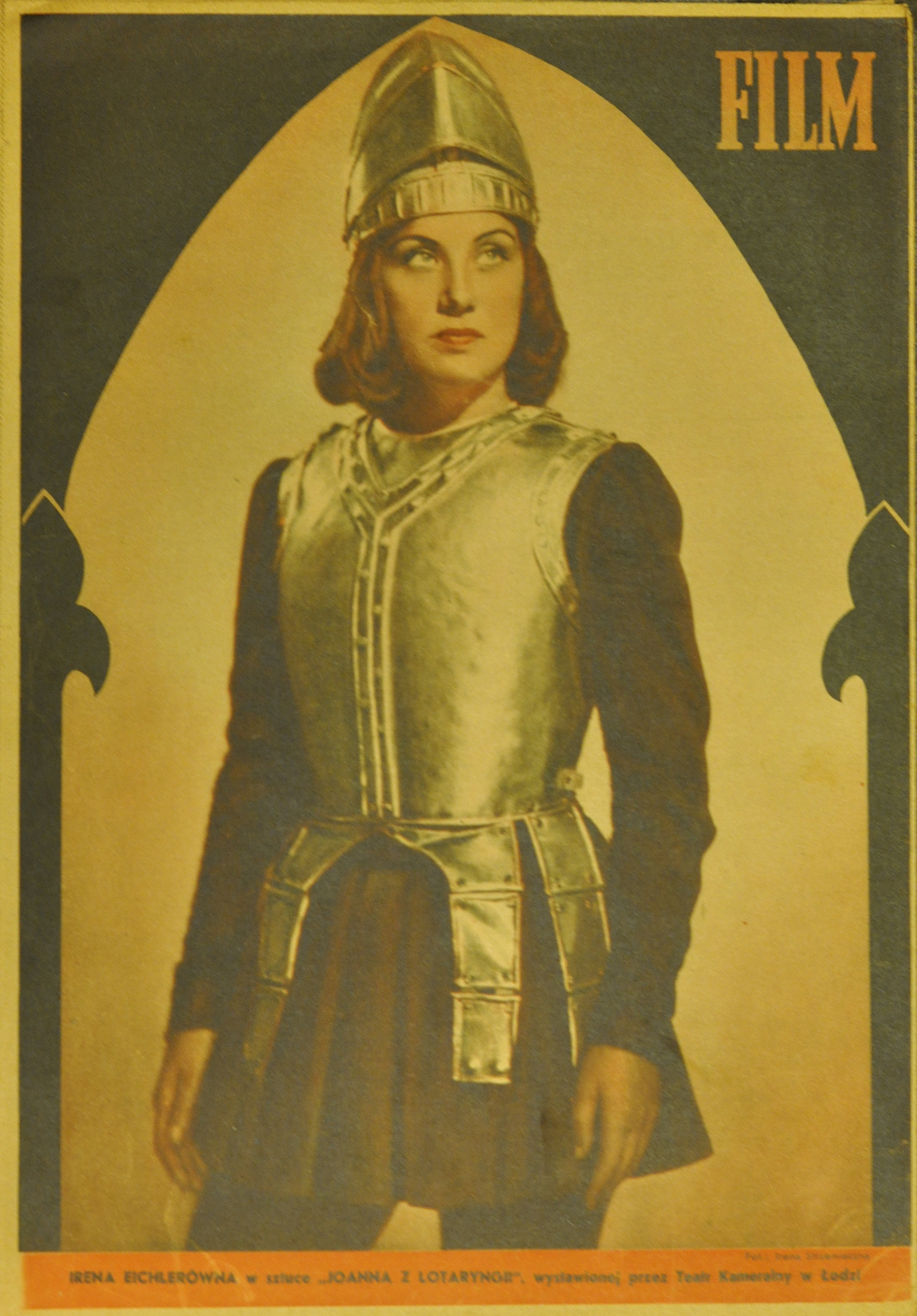 Back cover of Polish magazine Film Nr. 45 with Irena Eichlerówna.